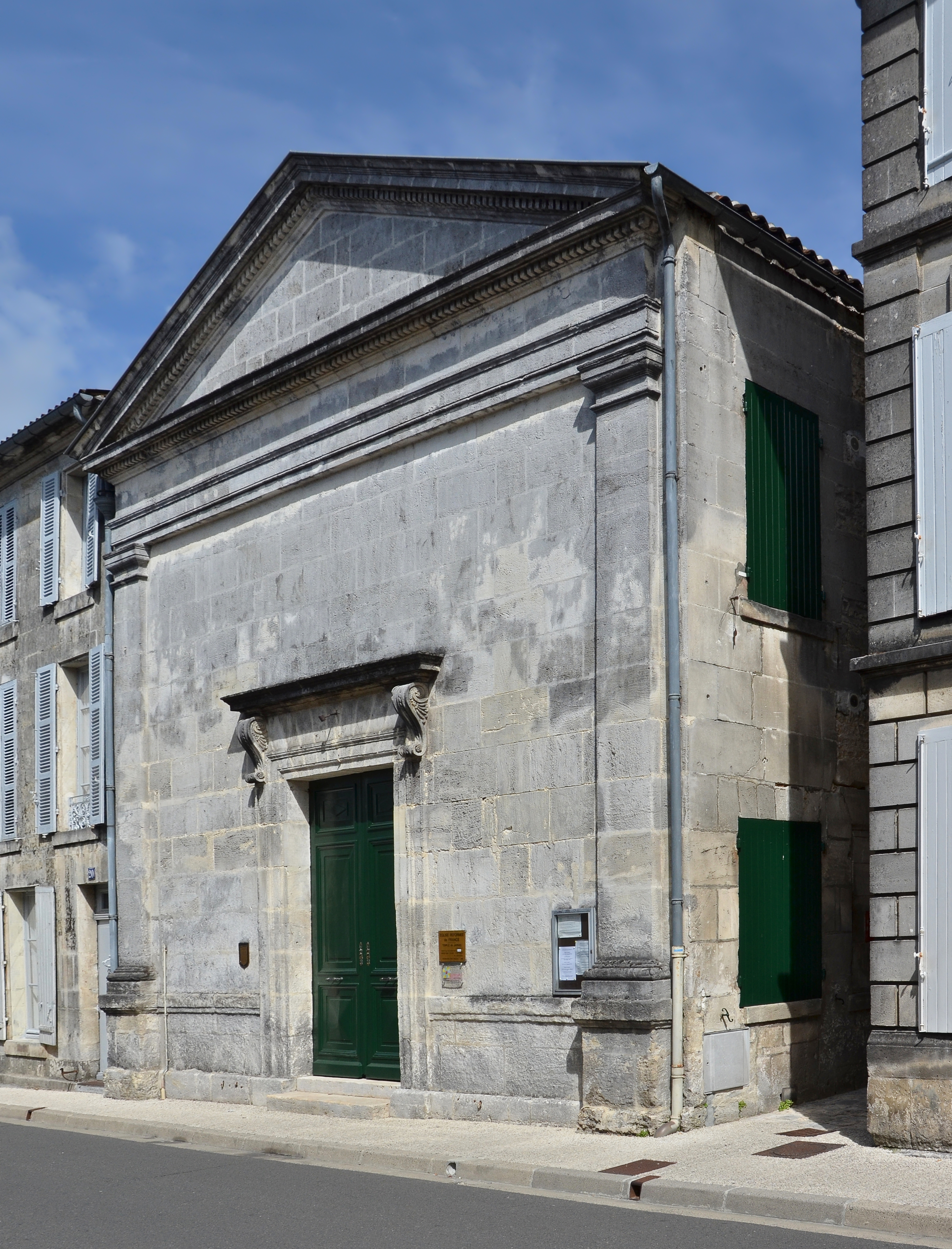 Facade of the protestant church (19th century), Jarnac, Charente, France.